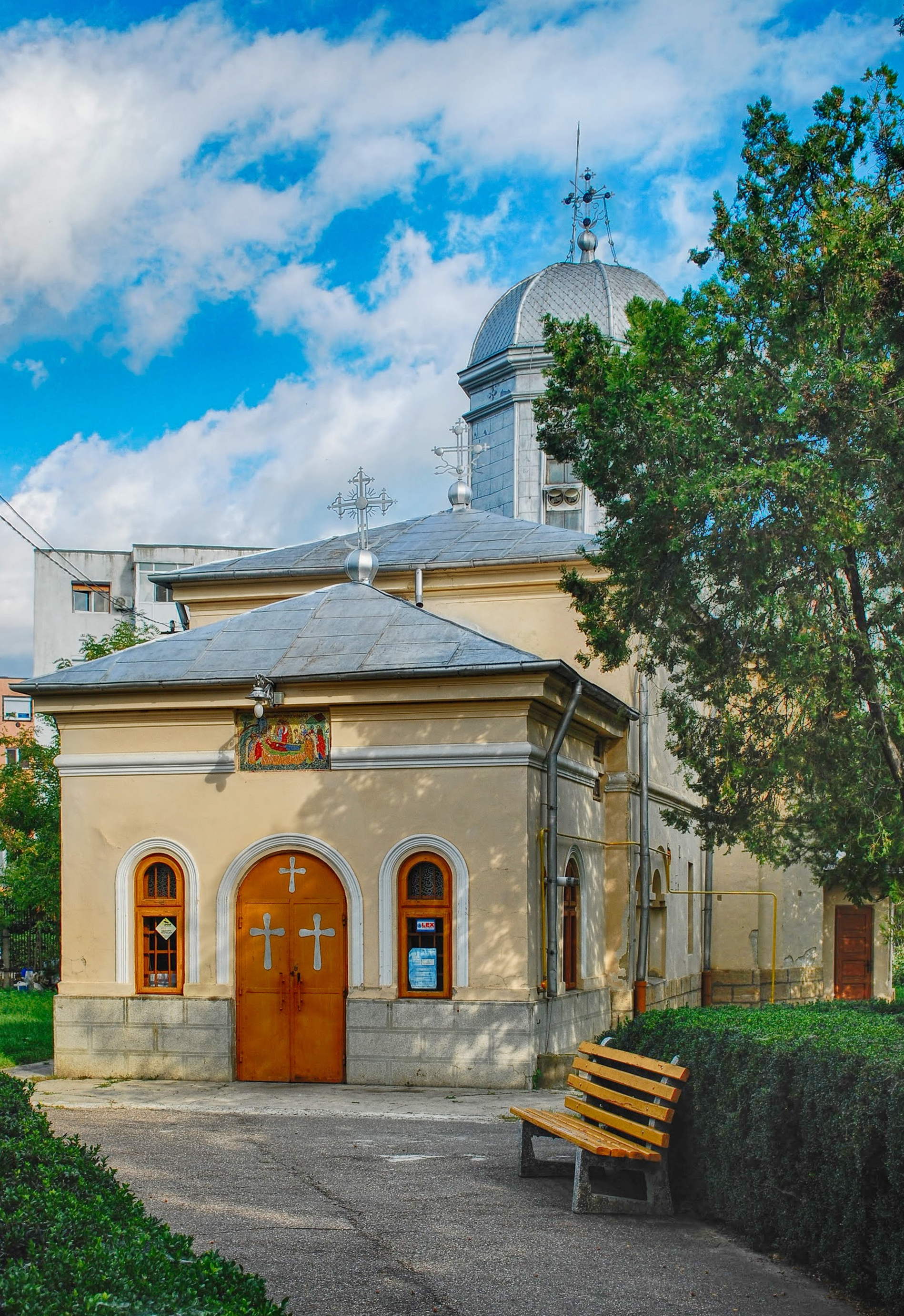 Church of the Dormition (1709) in Broşteni neibourhood, Buzău, Romania 01